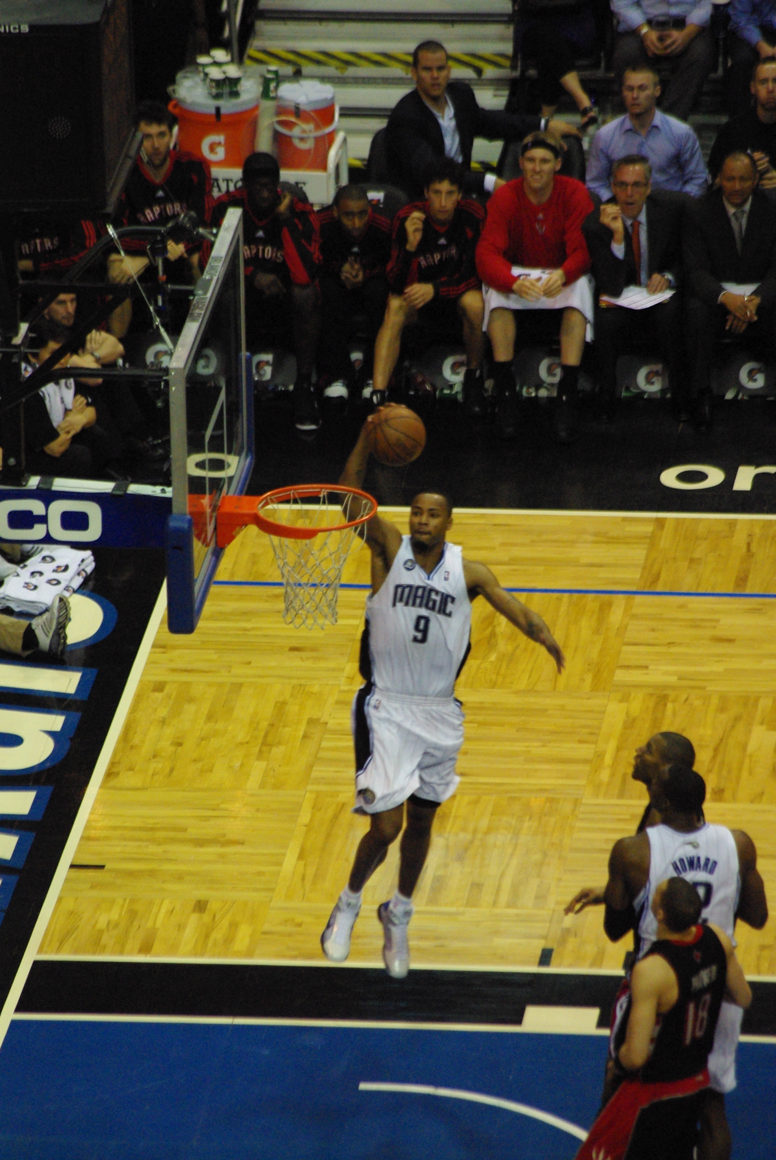 Rashard Lewis of the Orlando Magic.